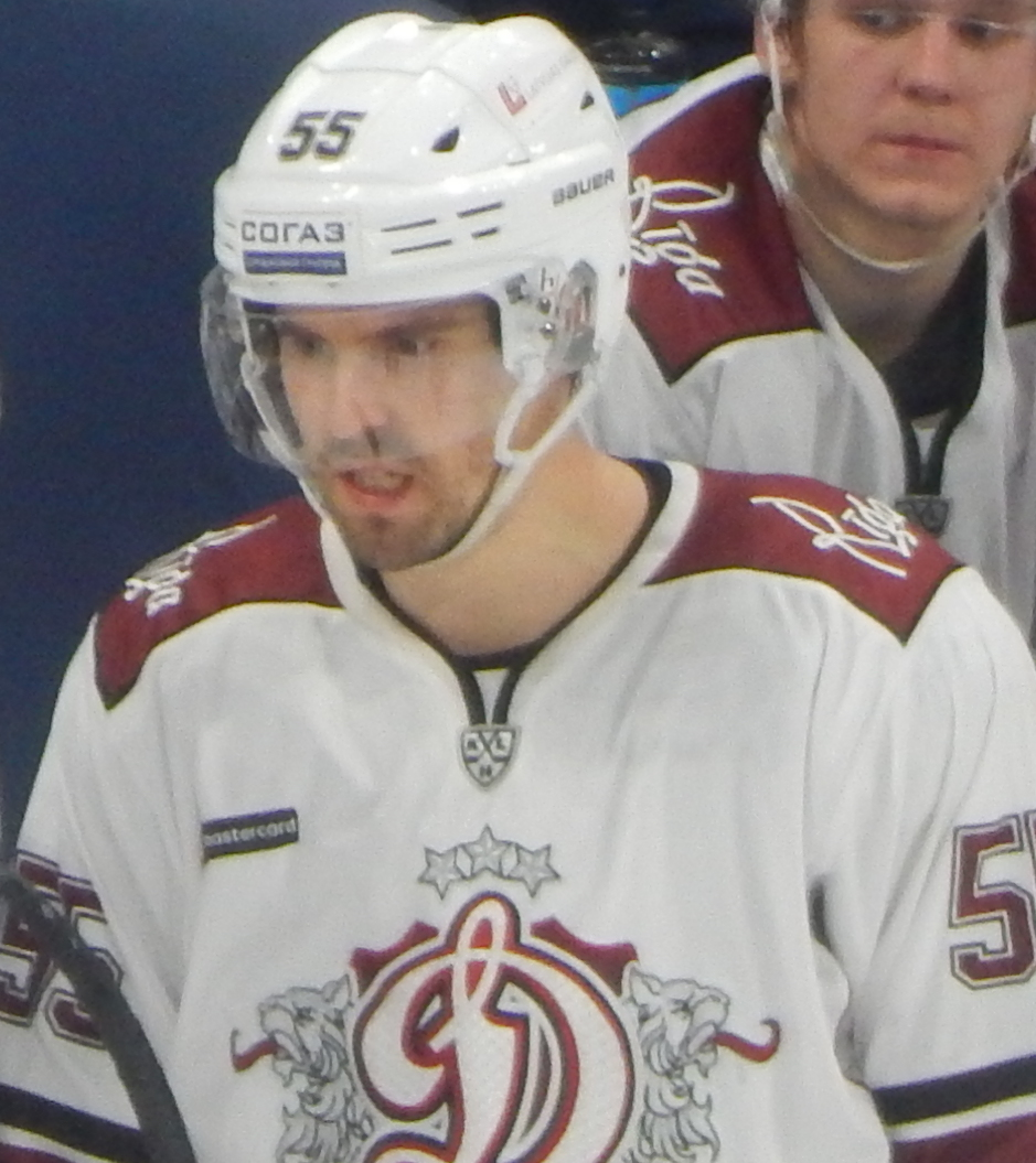 KHL regular match between Dynamo Moscow and Dinamo Riga. This game was held at Dinamo Stadium in Moscow on January 6, 2019.